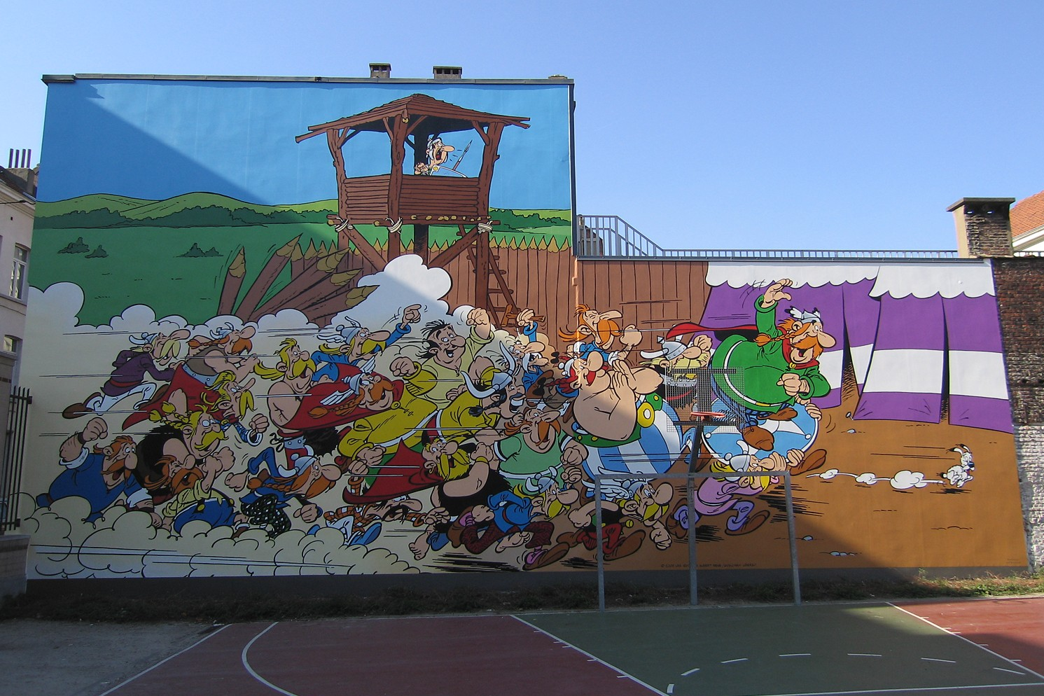 A mural painting in Brussels, 33 rue de la Buanderie, showing characters from the Asterix comics by R. Goscinny & A. Uderzo